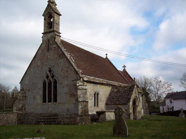 The Church of St Cosmos and St Damian at Sherrington This 14th century church, has many interesting features including recently exposed wall texts.